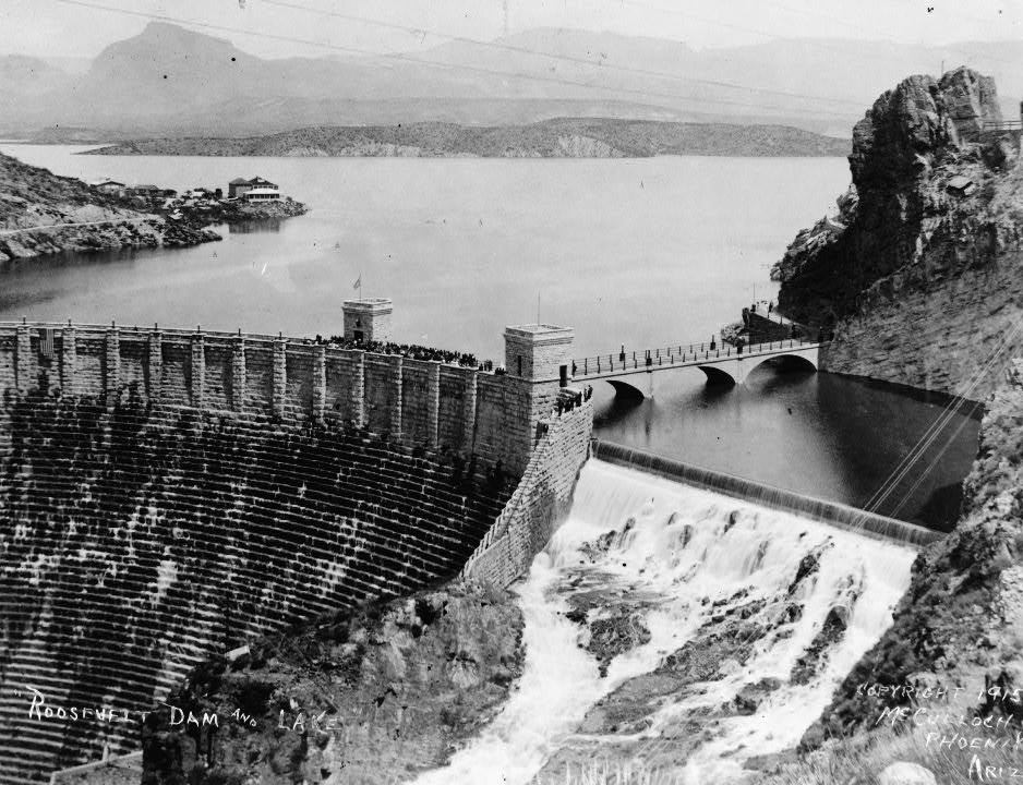 Roosevelt Dam and lake, Arizona. The original dam did not meet the standards for a "maximum credible earthquake" [1]